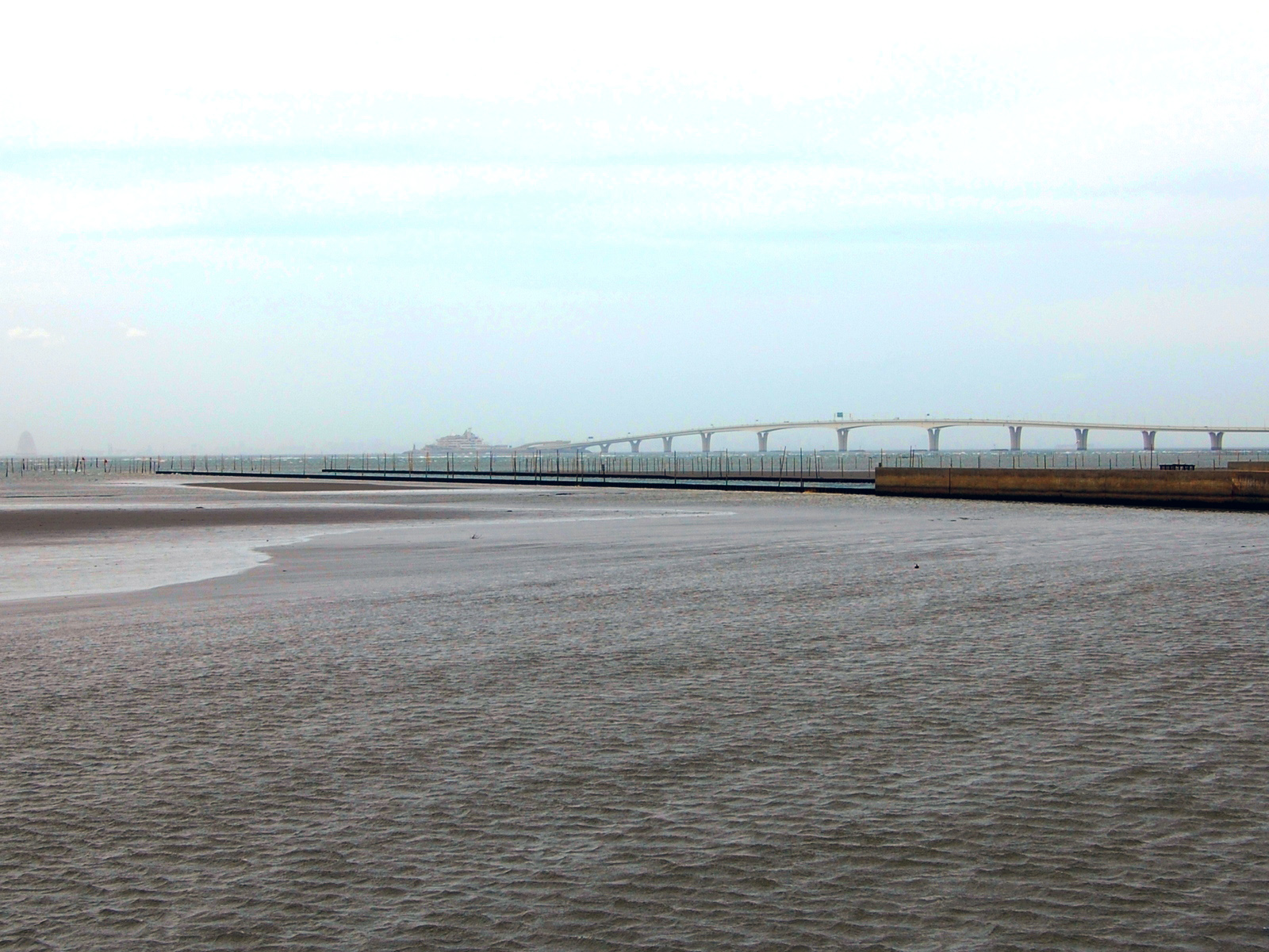 Tideland in Tokyo bay. Place is Kaneda beach in Kisarazu city, Chiba, Japan